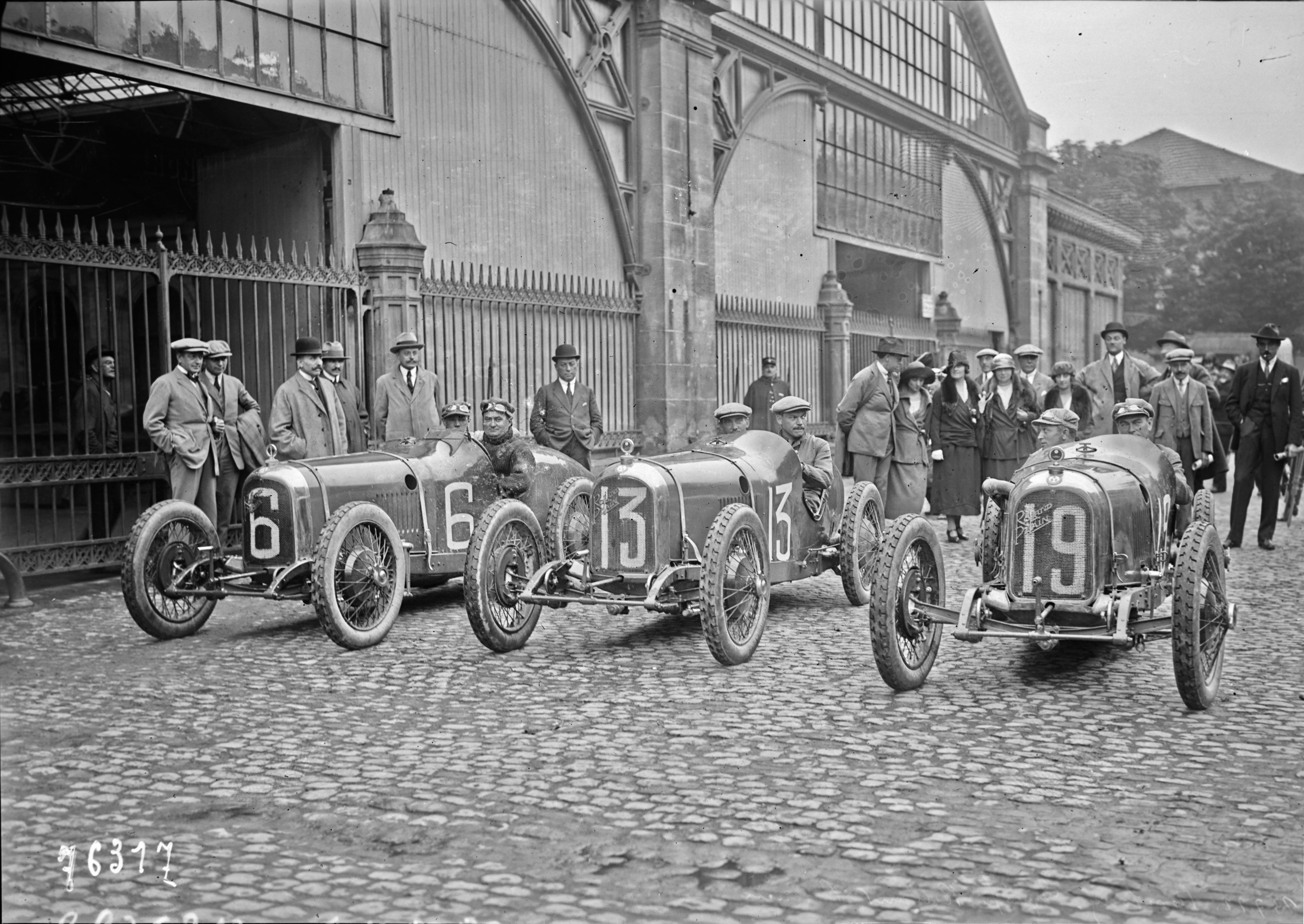 Team Rolland-Pilain at the 1922 French Grand Prix, #6 Albert Guyot, #13 Victor Hémery and #19 Louis Wagner.